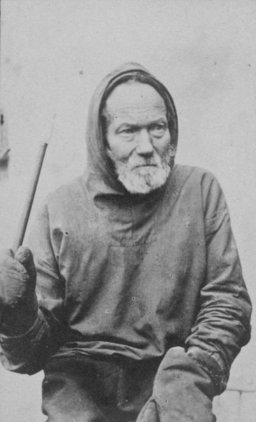 Photograph of Samuel Kleinschmidt (1814–1886) taken around 1884–1885. Photography by J. A. D. Jensen.